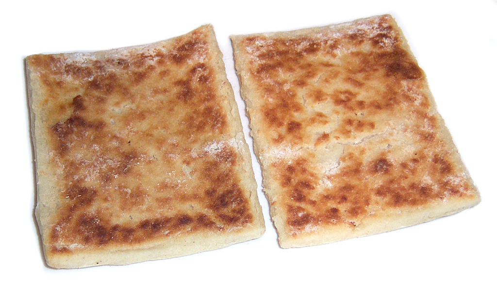 2 Irwins Potato Cakes